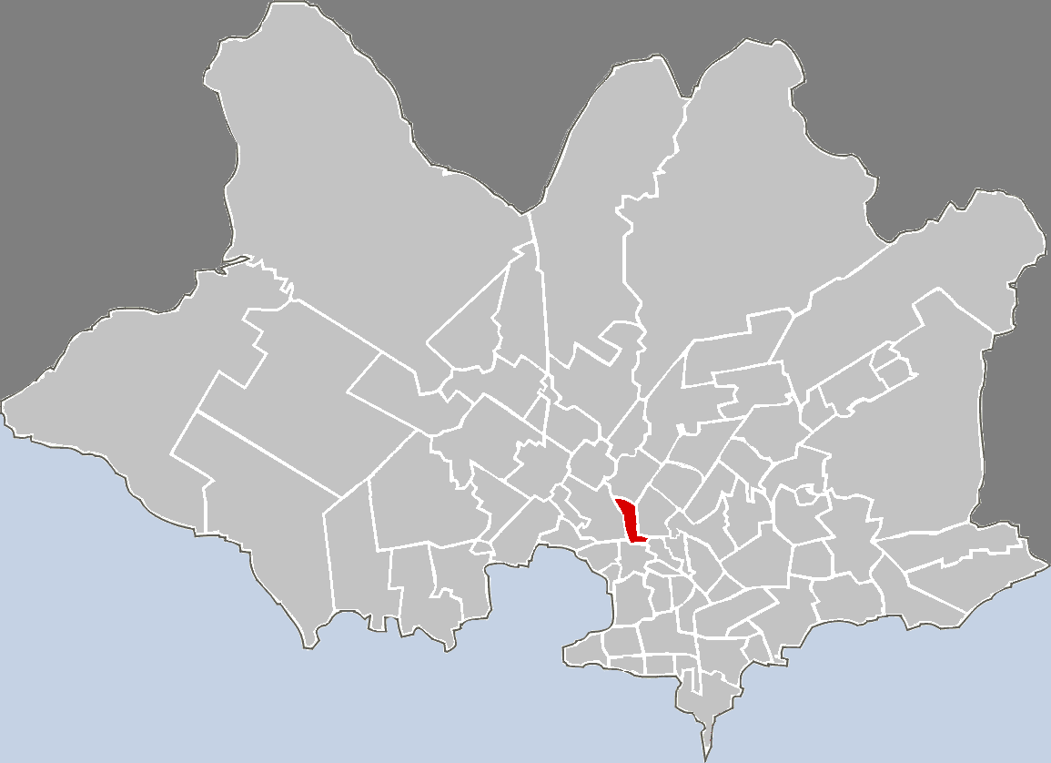 Map highlighting the given barrio in Montevideo.